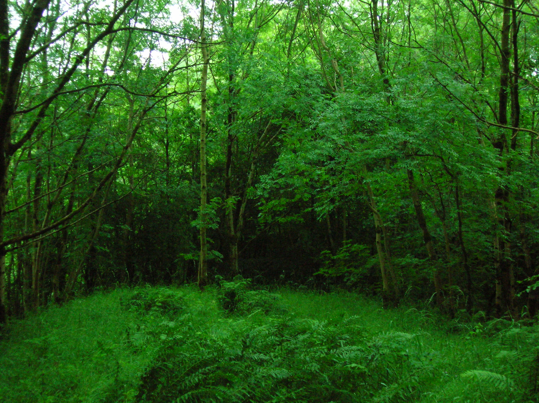 The Judge's Hill woods, Galston, Ayrshire, Scotland. The Moot Hill is in the background.